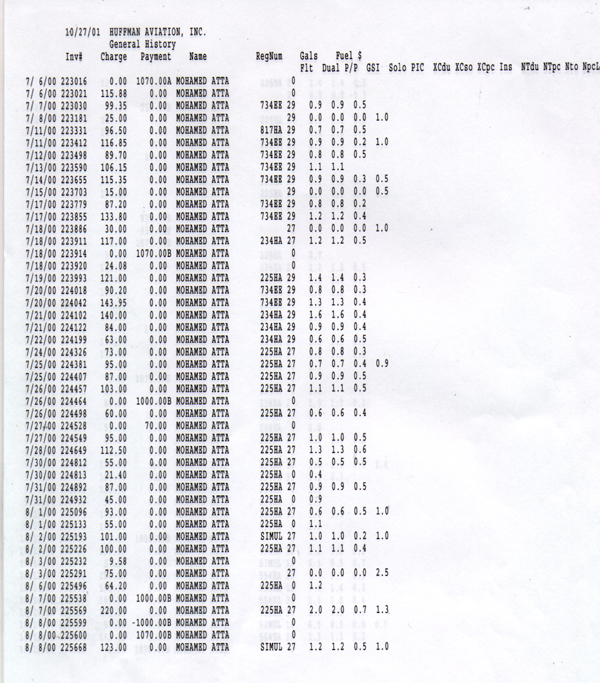 Mohamed Atta's flight record.